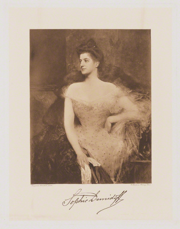 Sophie Ilarinovna, Princess Demidoff by Frederick John Jenkins, after Jean Joseph Benjamin-Constant photogravure, 1890s 11 1/8 in. x 8 5/8 in. (282 mm x 218 mm) plate size; 16 in. x 12 1/2 in. (407 mm x 316 mm) paper size Purchased, 1966 Reference Collection NPG D34864